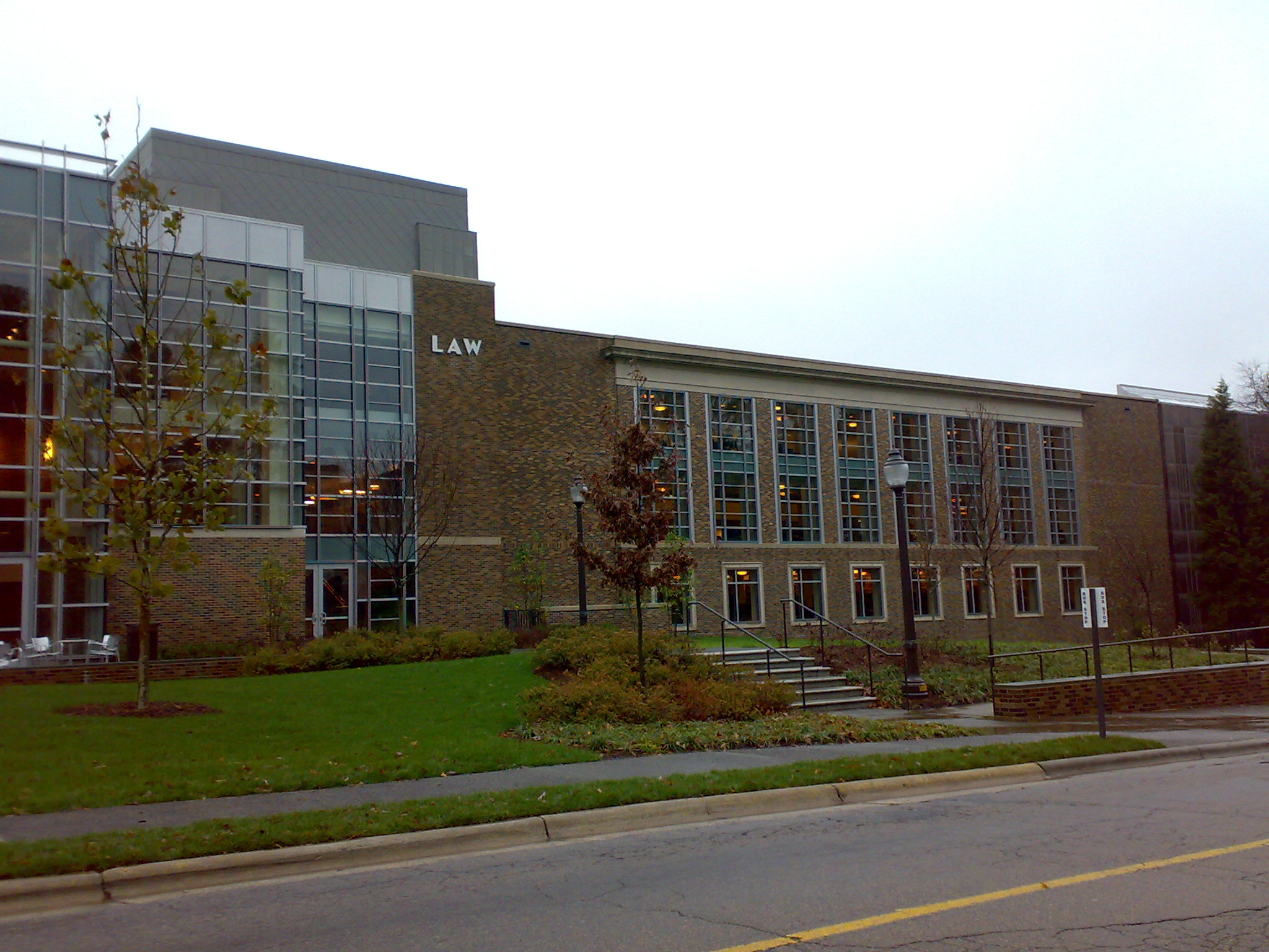 Duke University Law School, Durham, NC